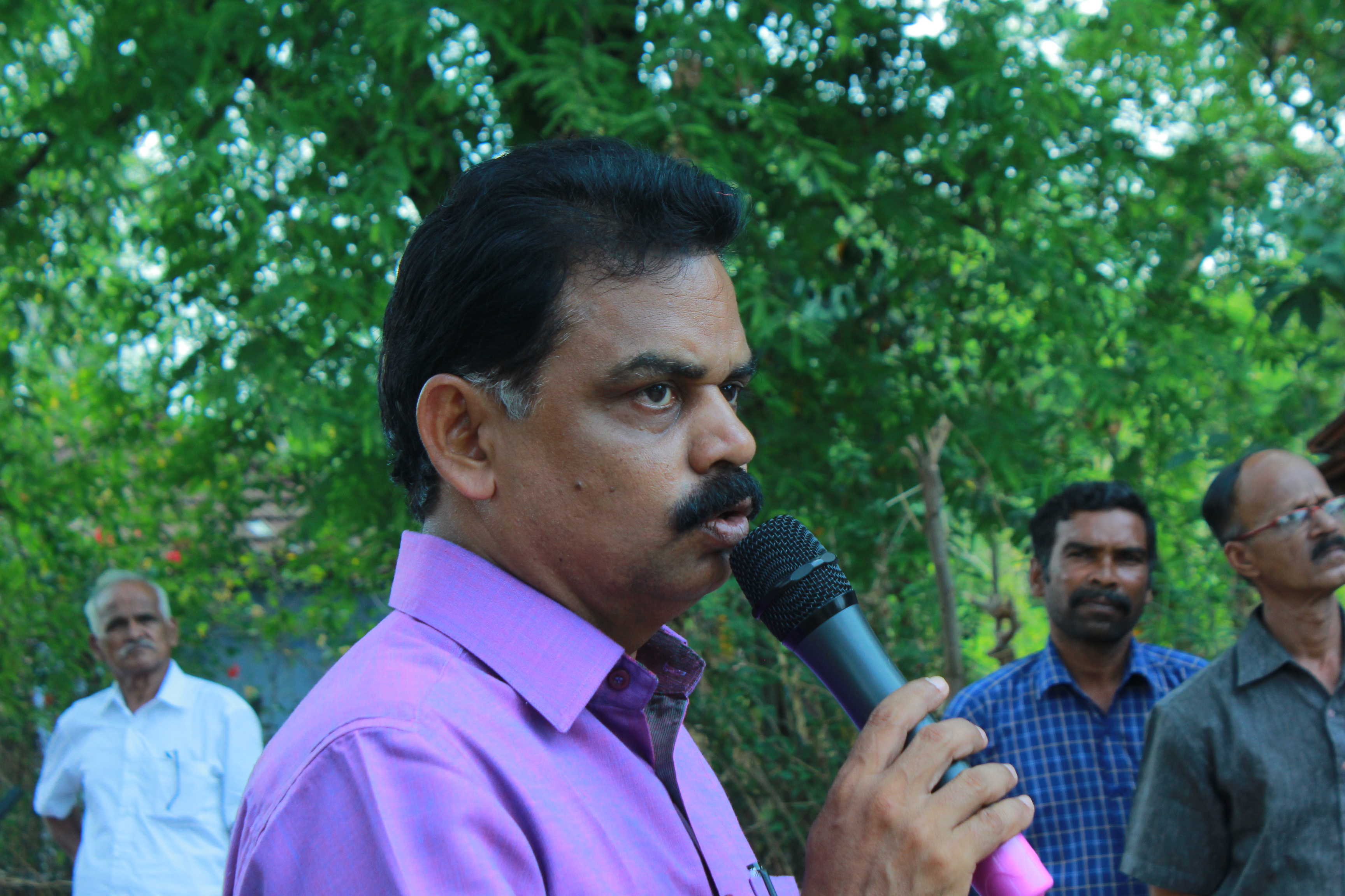 Member of Kerala Legislative Assembly representing Alathur Legislative Assembly